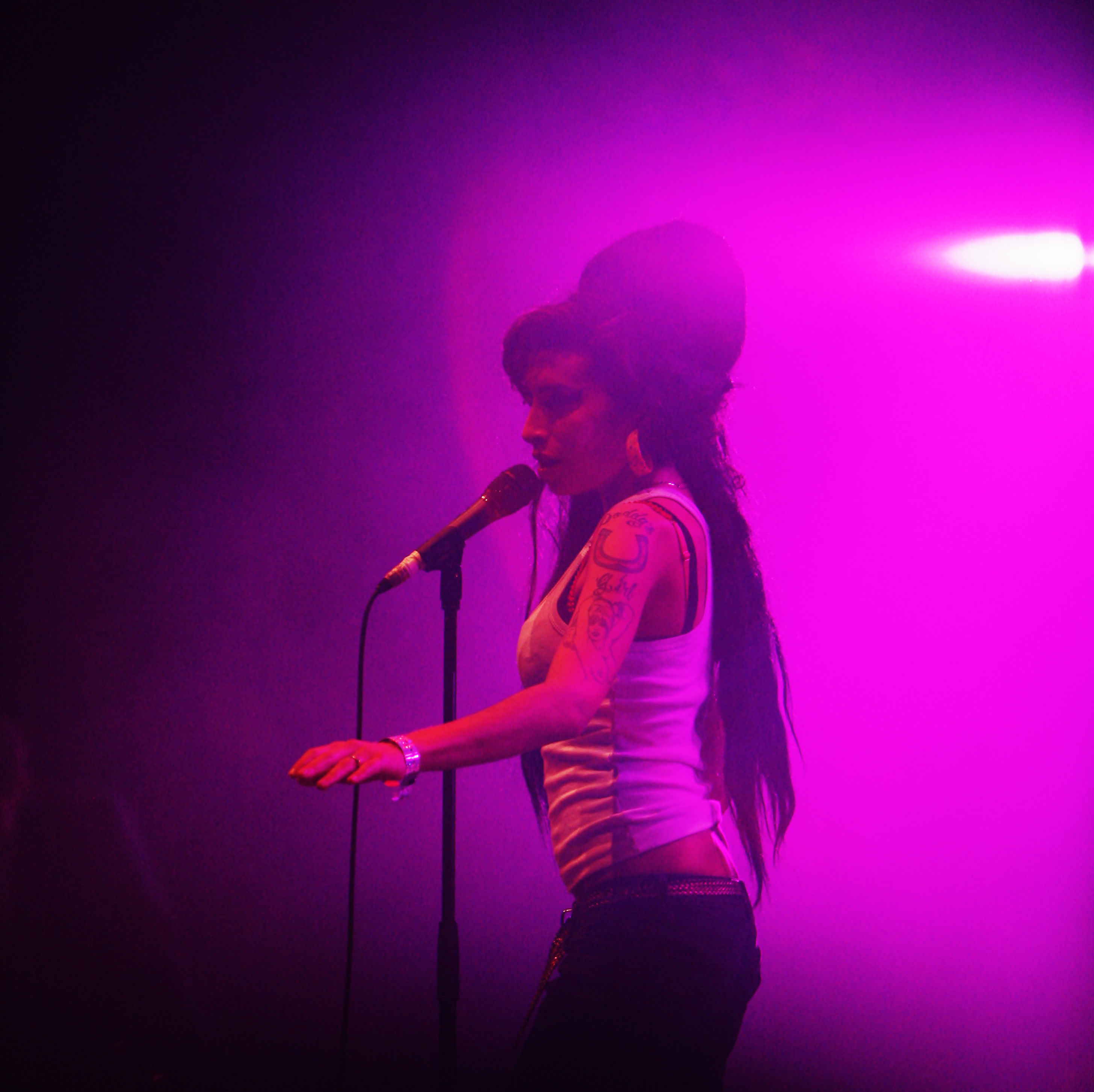 Amy Winehouse at the Eurockéennes of 2007